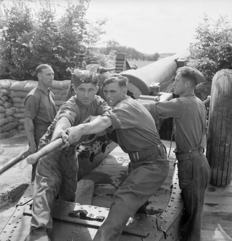 Ramming the shell home in a six inch Mk XIX field gun are (left-to right) Gunners Bill Clancey (from St Johns), Robert Rideout (Hermitage Bay), Arthur Bailey (Trinity Bay) and Sam Bayford (Buchans). They are taking part in a training exercise, somewhere in England. See also File:Newfoundland gunner in UK WWII IWM D 8882.jpg